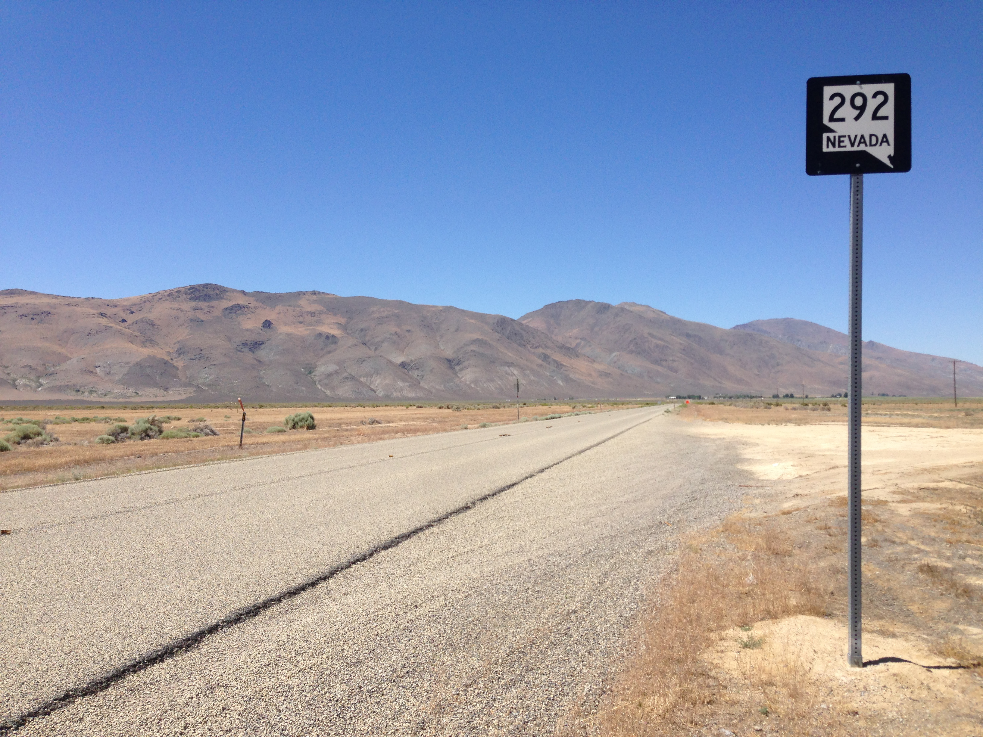 First reassurance sign along northbound Nevada State Route 292 (Denio Road) near Denio, Nevada